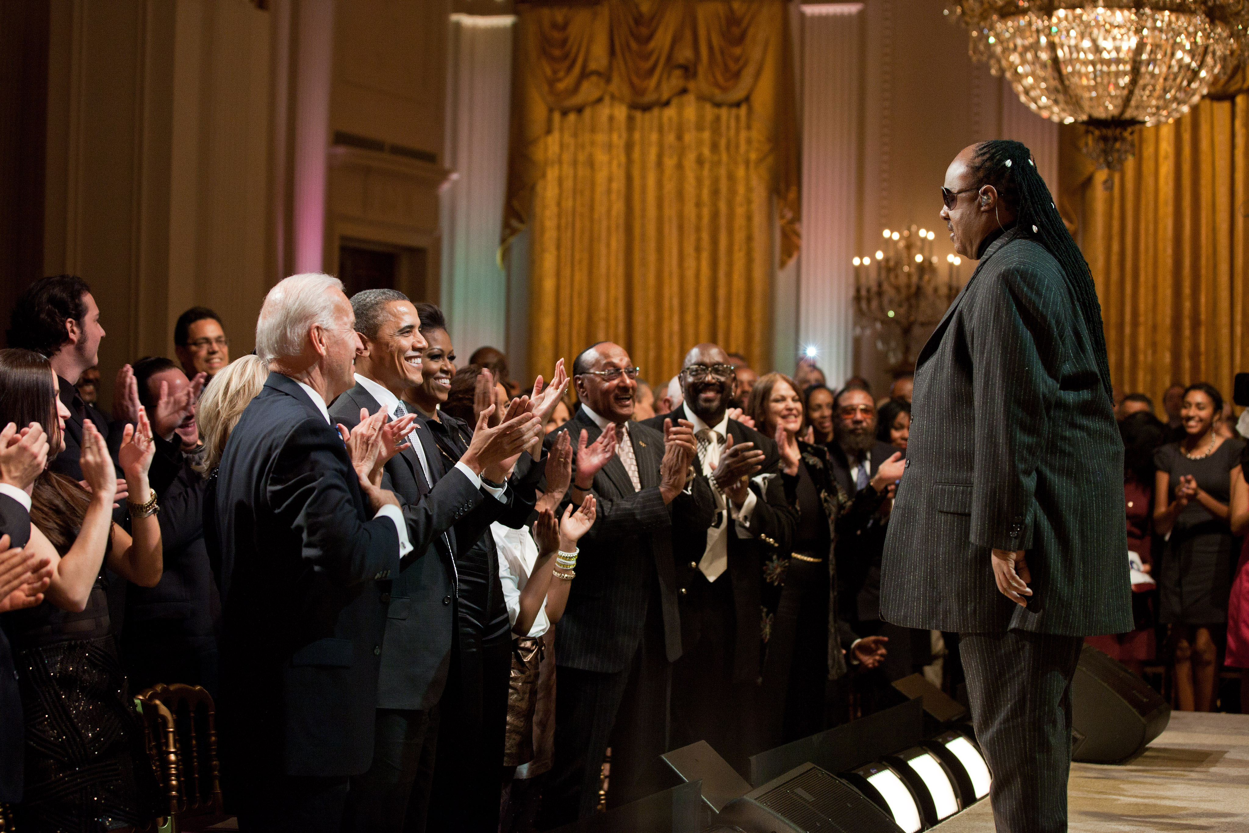 Recording artist Stevie Wonder receives a standing ovation during “The Motown Sound: In Performance at the White House,” a concert celebrating Black History Month and the legacy of Motown Records, in the East Room of the White House, Feb. 24, 2011. (Official White House Photo by Pete Souza)